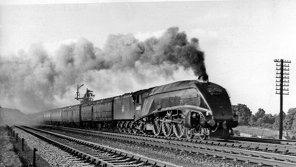 Up Capitals Limited express on the ECML at Wymondley, south of Hitchin View northward, towards Hitchin, Grantham, Doncaster and the North; ex-Great Northern ECML. The 'Capitals Limited' replaced from 1949 the non-stop run formerly made by the 'Flying Scotsman', leaving London and Edinburgh ahead of it. Here the fireman of Gresley A4 streamliner No. 60009 'Union of South Africa' is piling on the coal as the engine attacks the rising grades through Hitchin up to Stevenage - a fine sight.